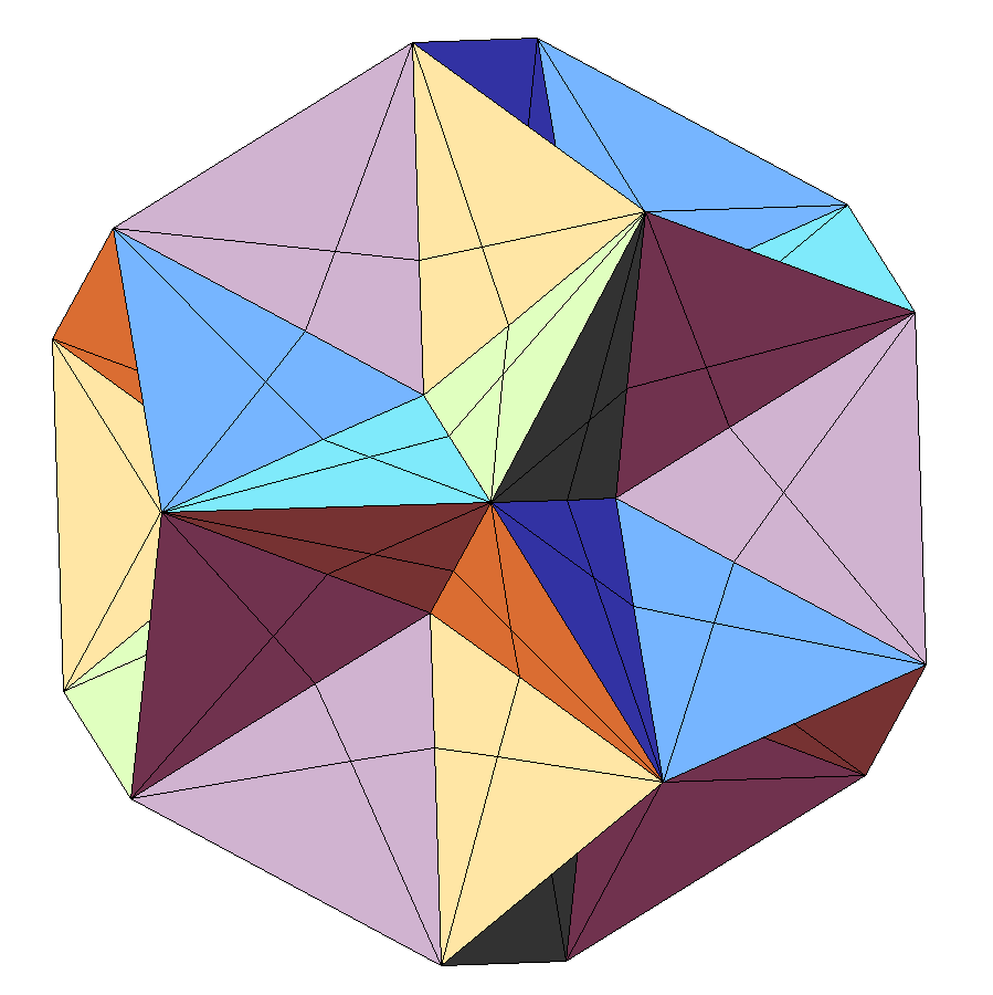 Third stellation of icosahedron